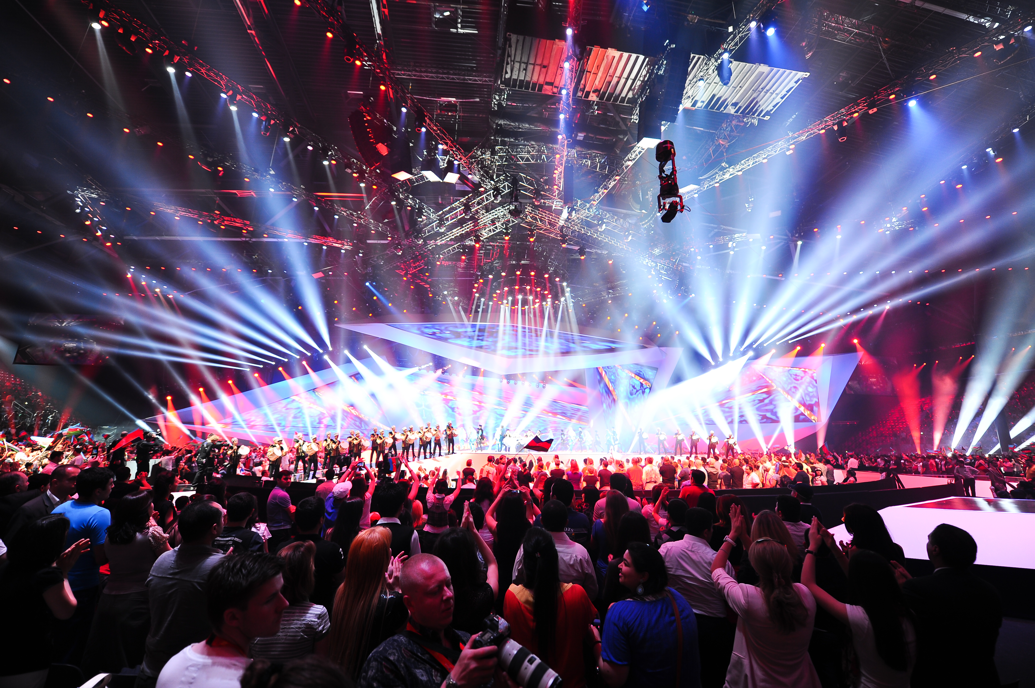 Baku Crystal Hall